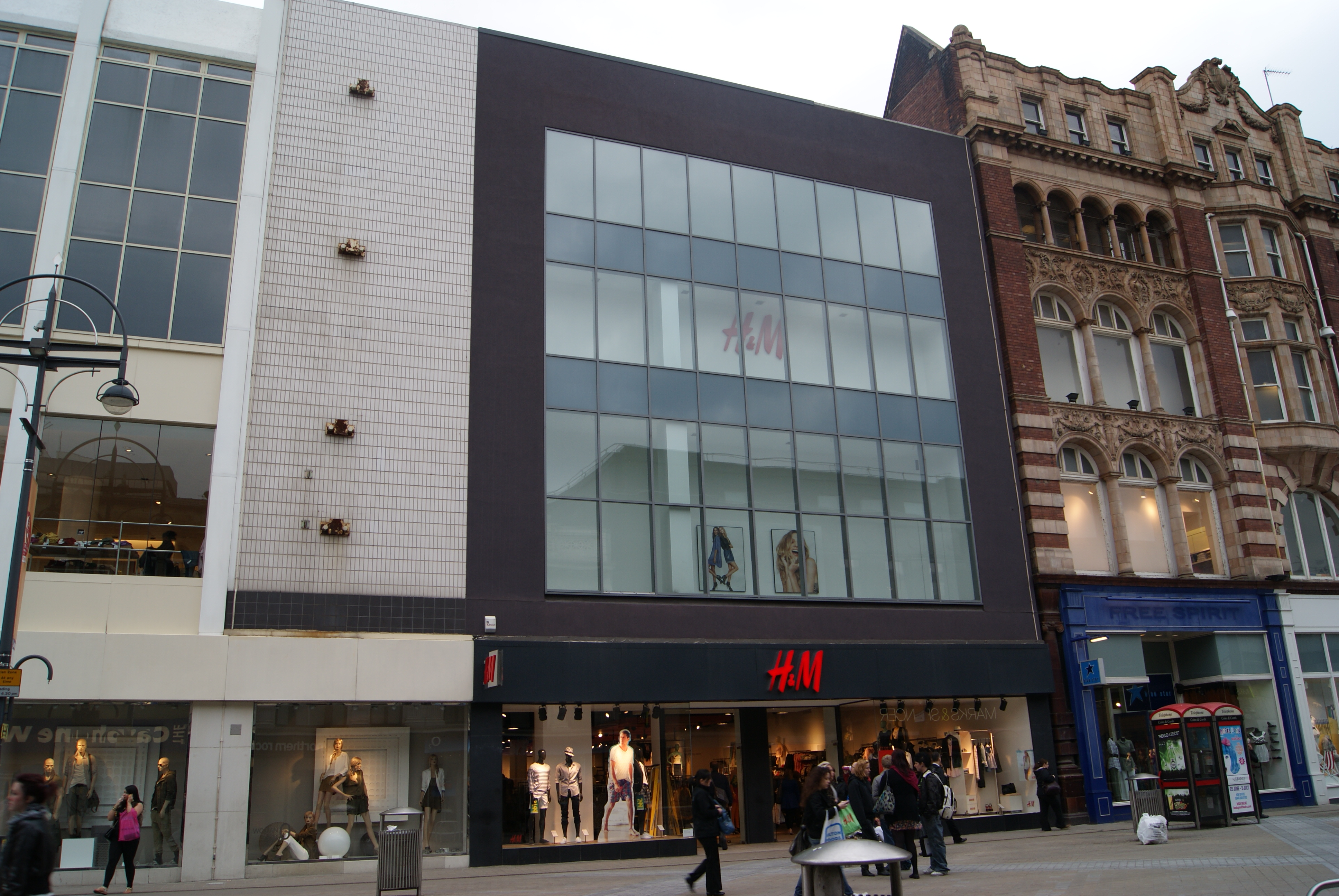 H&M, a Swedish retailer trading in the United Kingdom on Briggate in Leeds, West Yorkshire. Taken on the afternoon of Tuesday the 4th of May 2010.